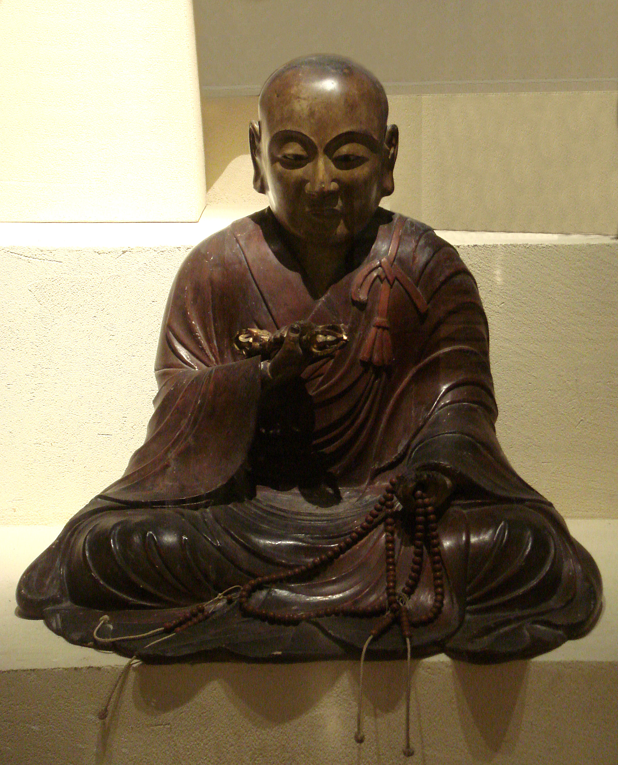 Kobo_Daishi.